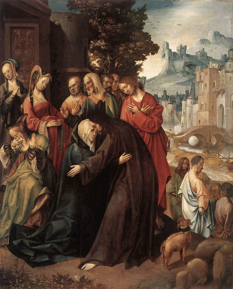 Christ taking leave of his bother, Mary. To the left women are mourning. In the background a number of Christ's disciples are waiting. To the right along with his disciples Christ leaves while looking back one last time. Bottom right a dog. In the distance a bridge leading to a city (Jerusalem?).